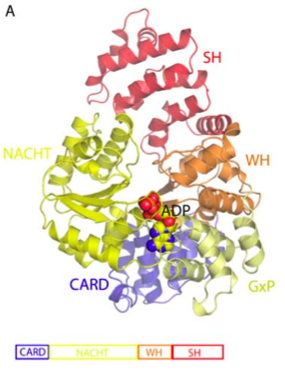 Structure of Apaf-1, an apoptosis-related protein with domains similar to NLR family proteins